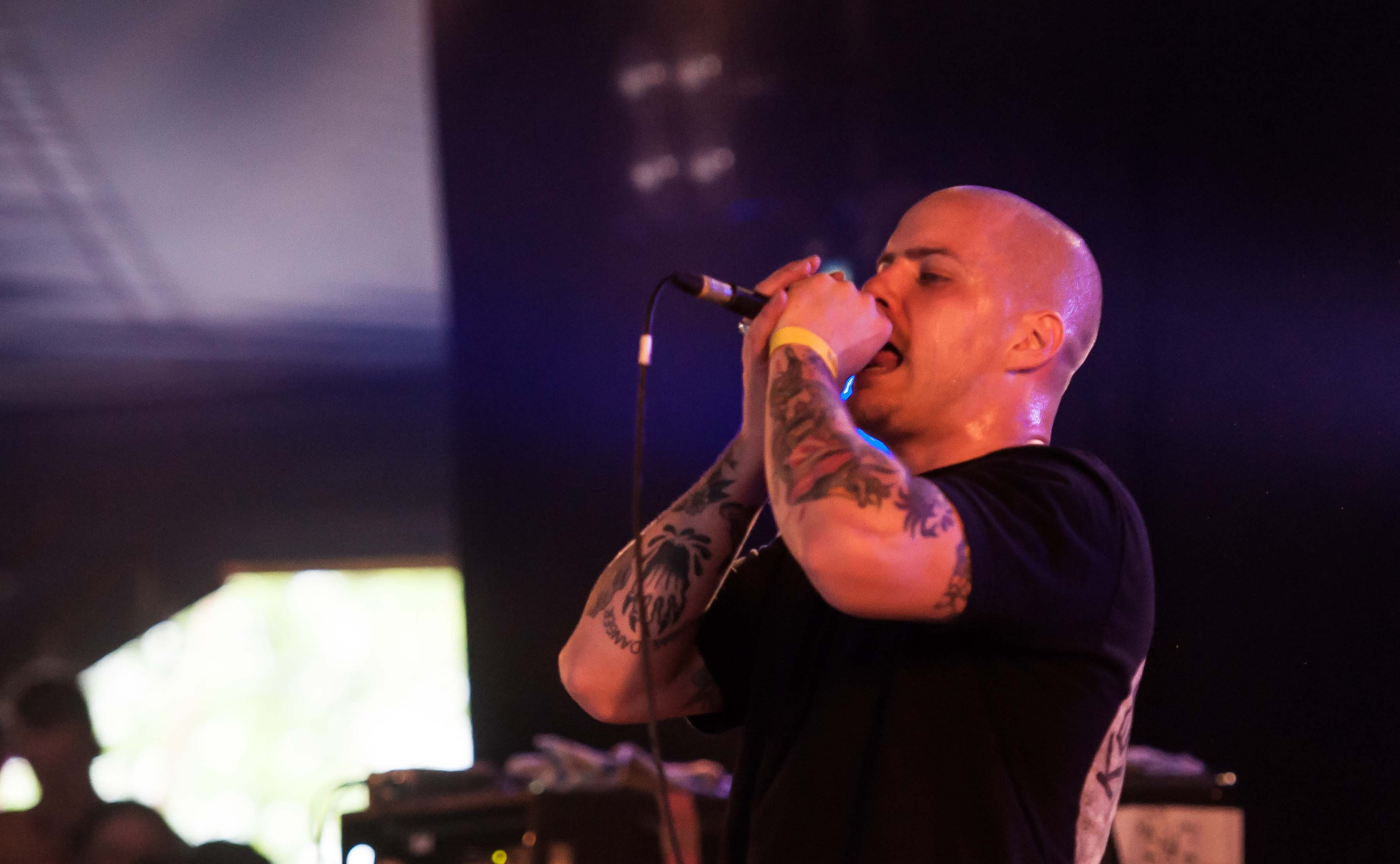 The Band Angel Du$t at Groezrock 2015 in Meerhout, Belgien